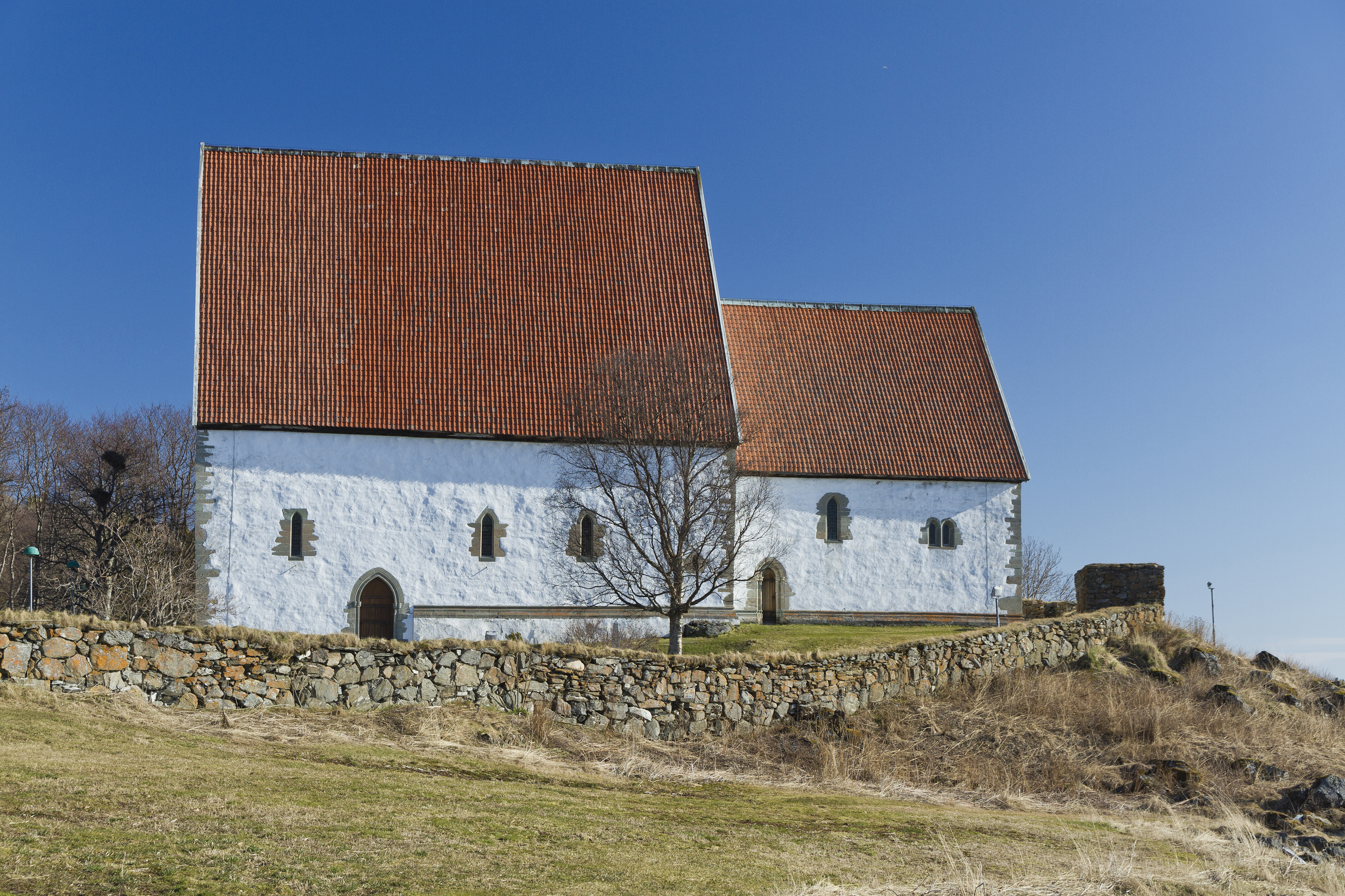 Trondenes Church in Harstad on the island Hinnøya, Troms, Norway in 2015 April.